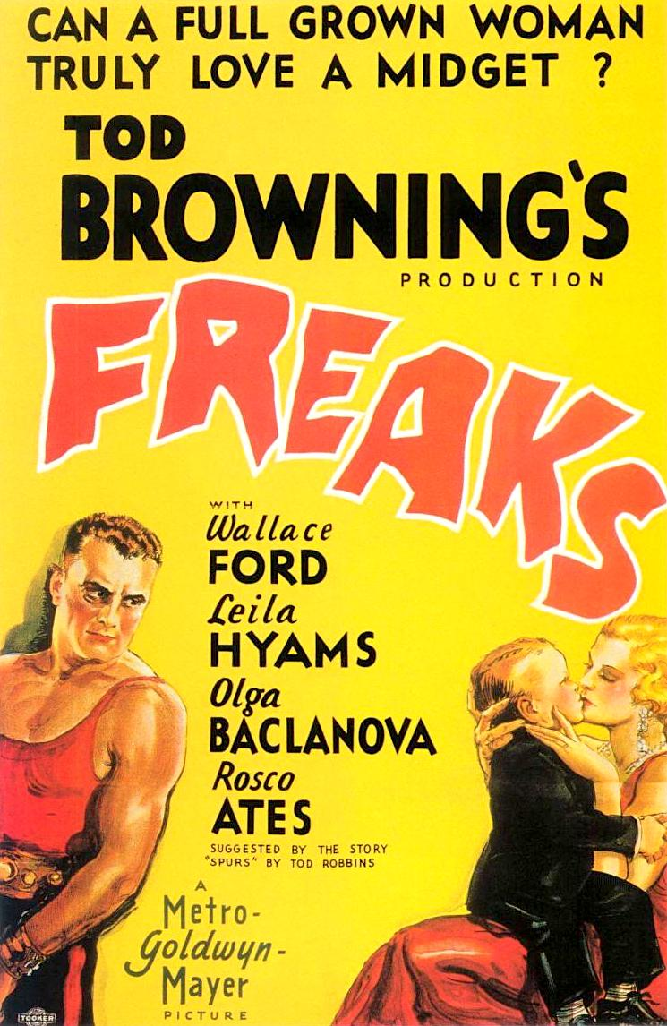 Original one-sheet poster Freaks (1932).